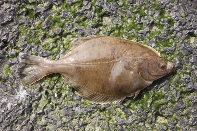 Small flounder on a stone surface